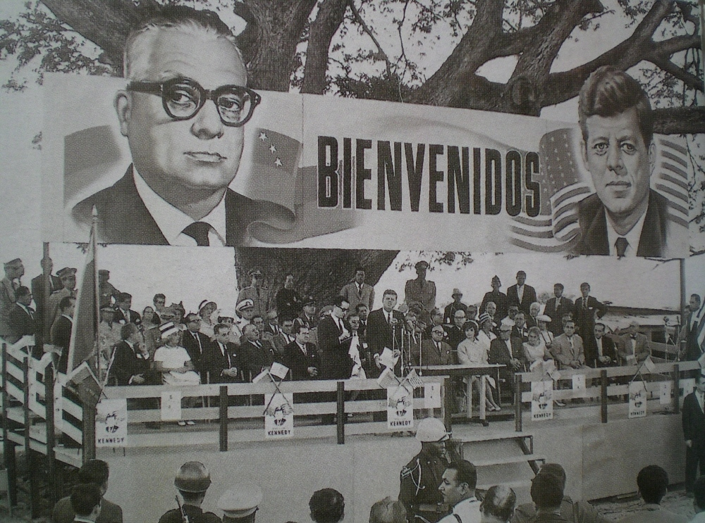 John F. Kennedy and Rómulo Betancourt at La Morita, Venezuela, during an official meeting. (Dec 16th, 1961)